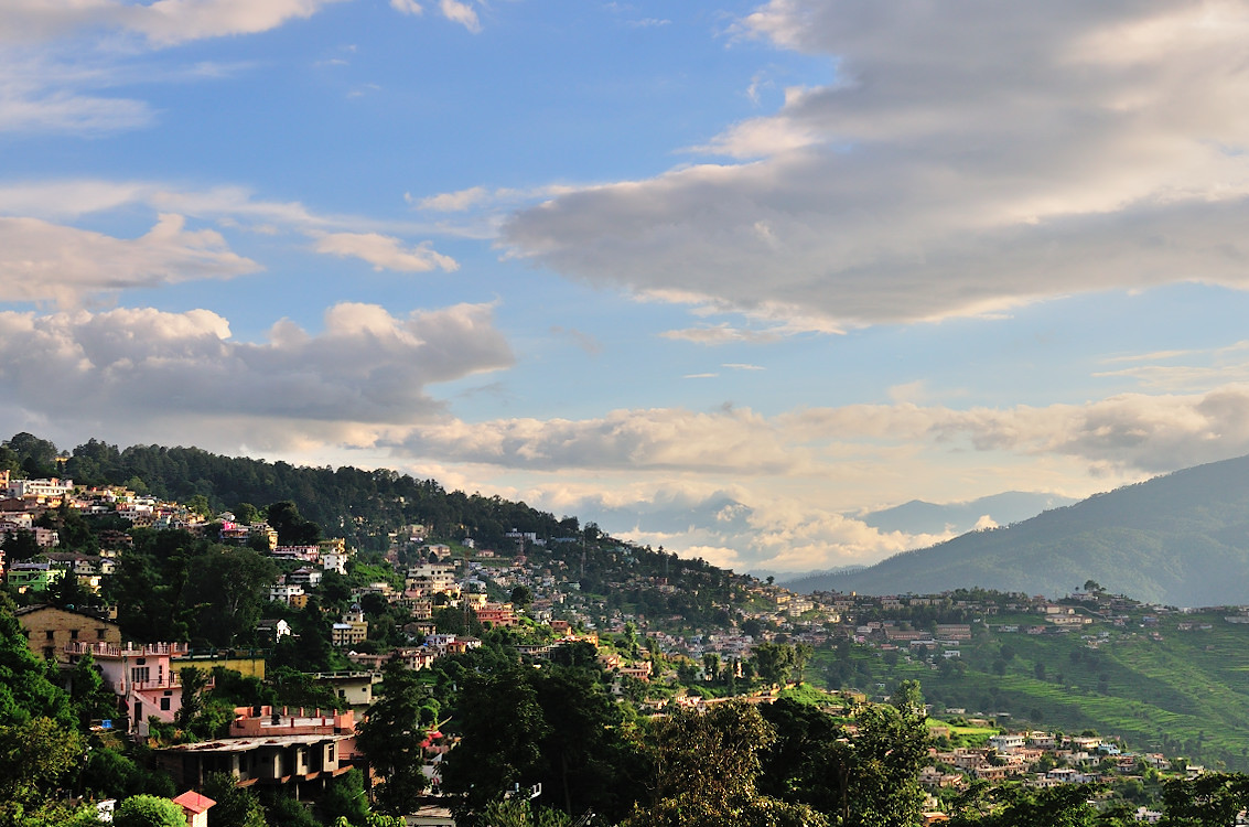 Forests, Nature, Geography, Valley, Scenery of Uttarakhand India